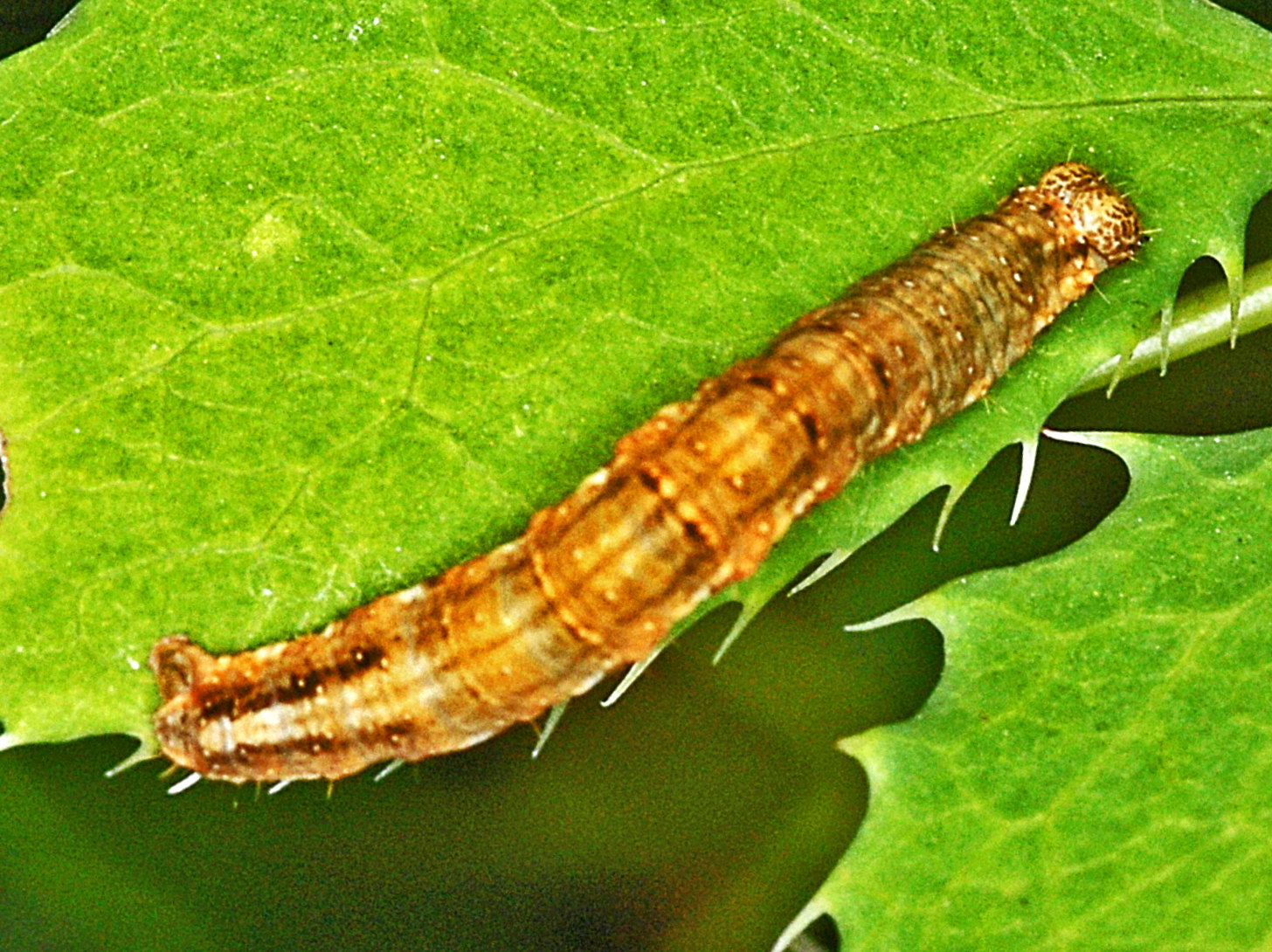 Pareulype berberata, caterpillar. Valsavarenche, Turin, Italy